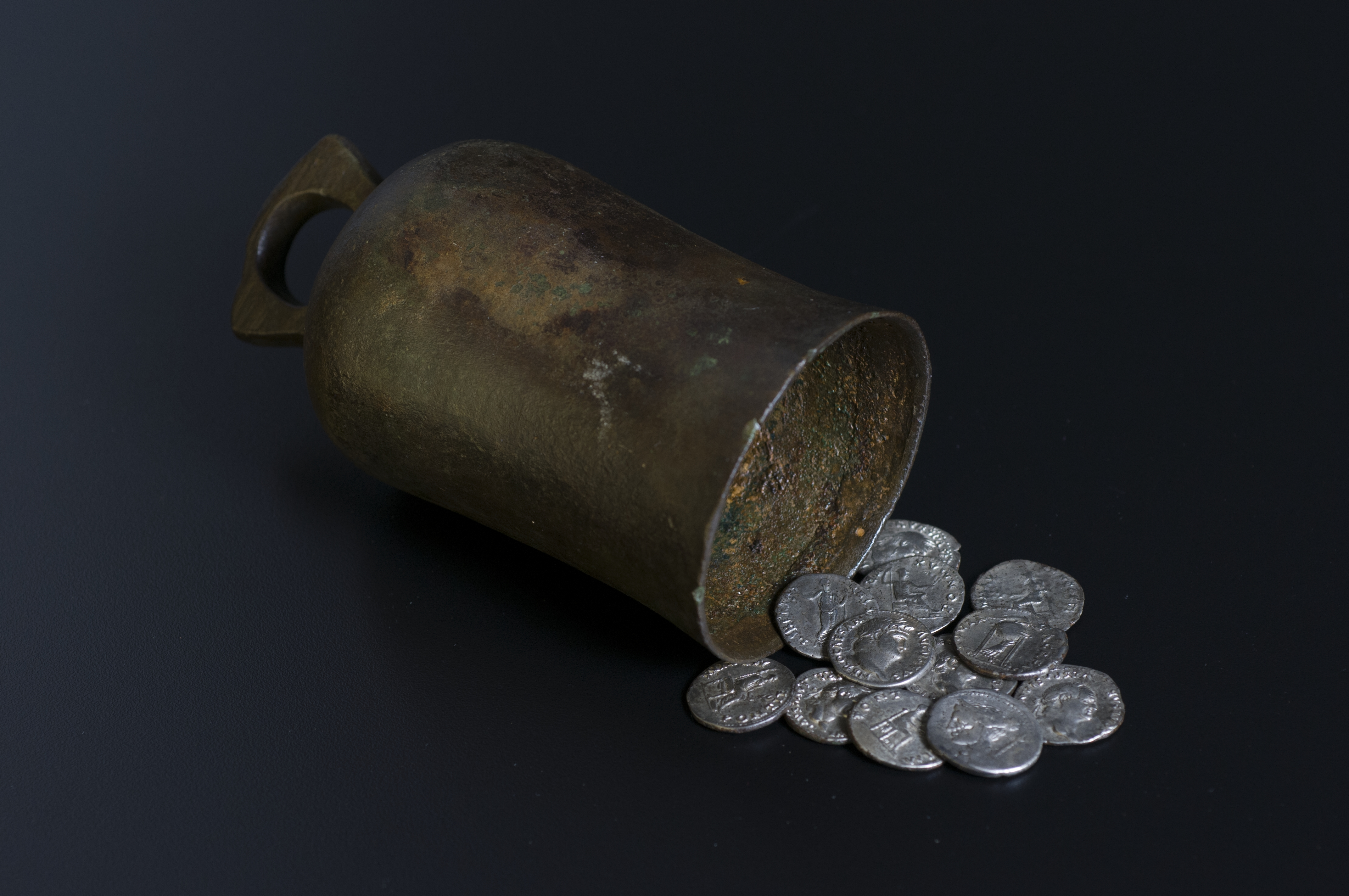 Binnington Carr Hoard, YORYM : H2401. In the Yorkshire Museum (York Museums Trust)